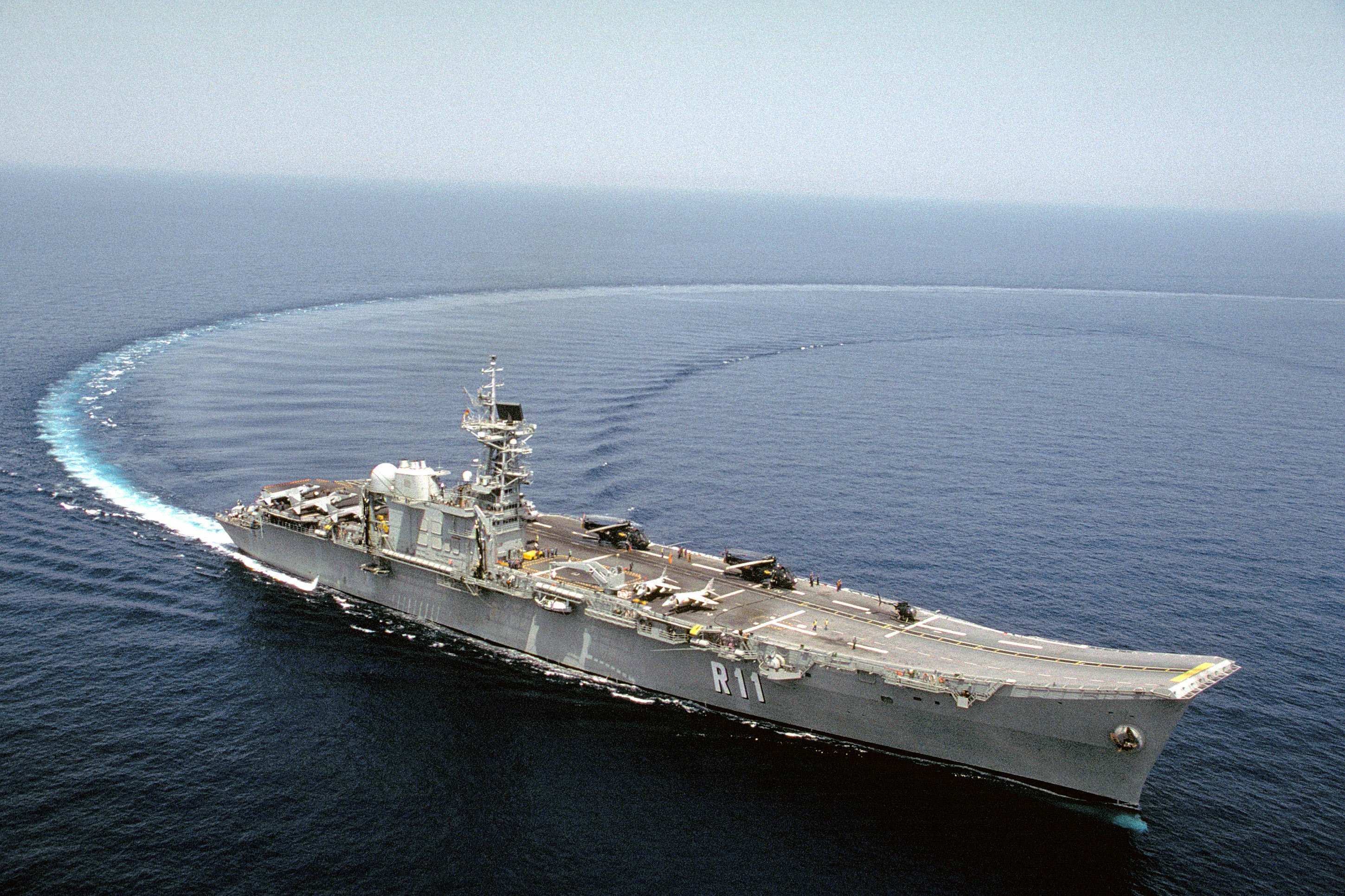 A starboard bow view of the Spanish navy's aircraft carrier PRINCIPE DE ASTURIAS (R-11) executing a turn during the joint exercise Dragon Hammer '92.